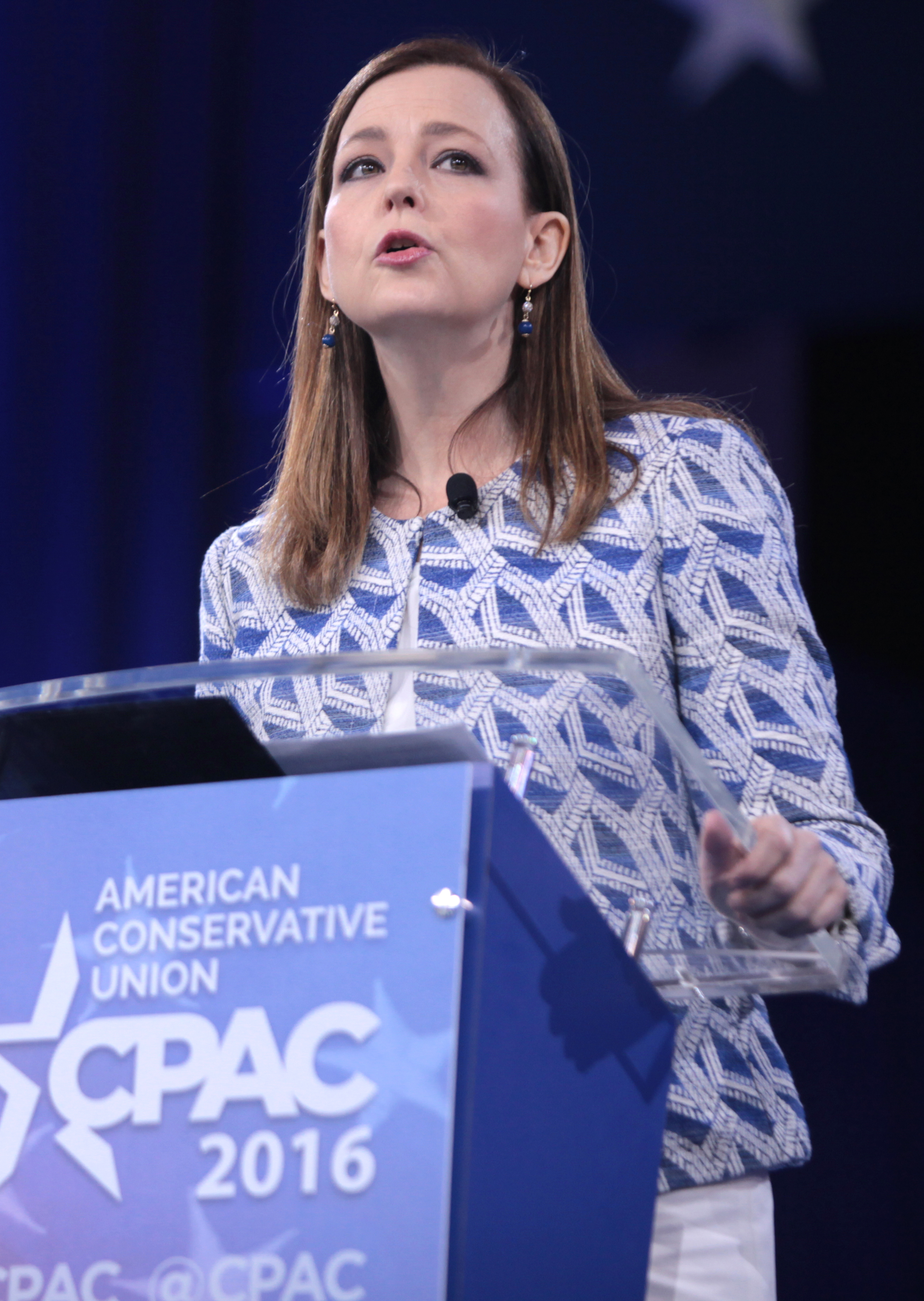 Jenny Beth Martin speaking at CPAC 2016 in National Harbor, Maryland.